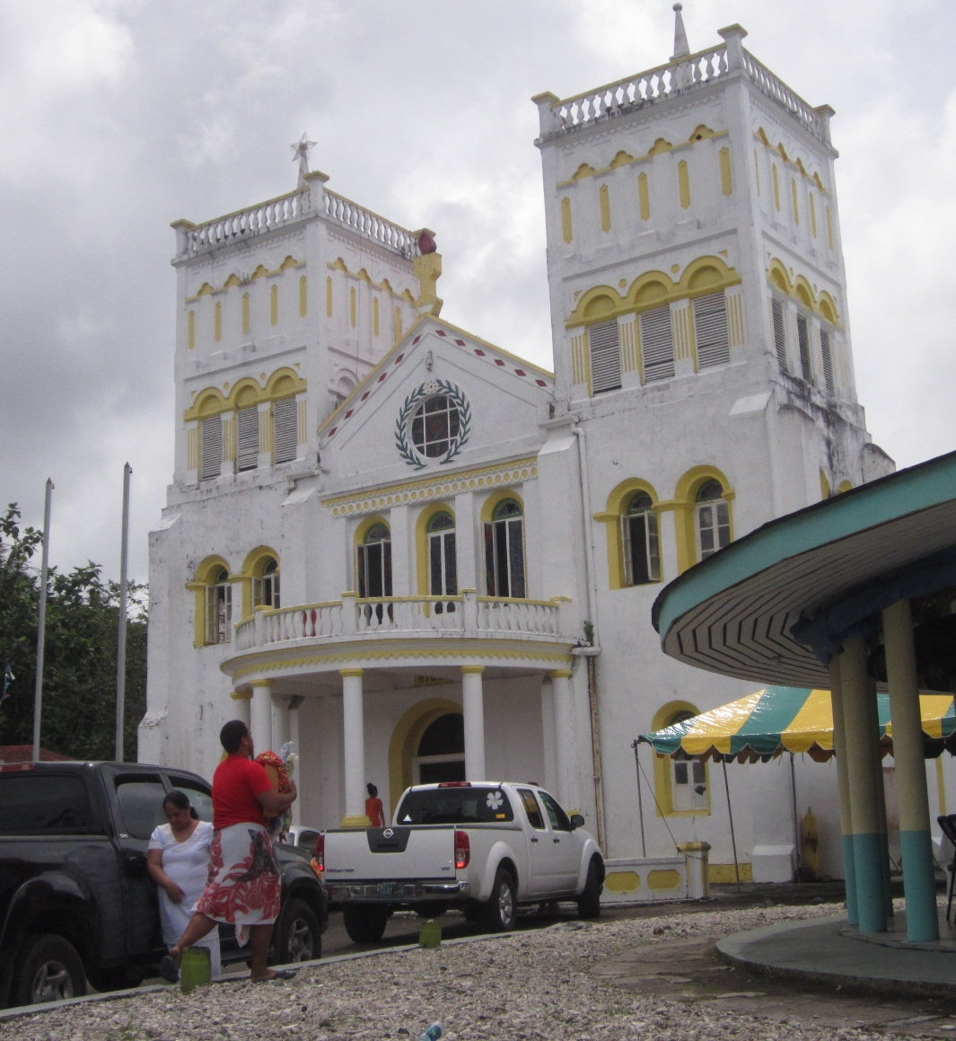 Another Samoan church